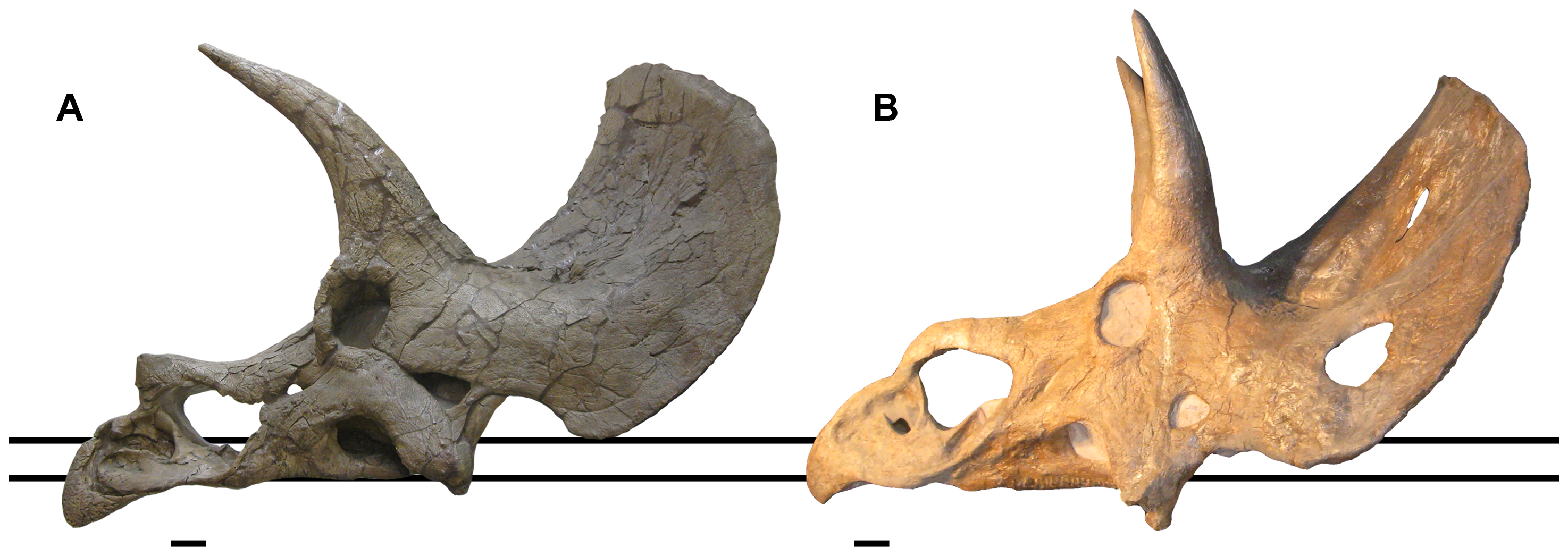 Lateral views of USNM 1201 and USNM 2142. A. Left lateral view of USNM 1201, originally named the holotype of Triceratops ‘elatus.’ Note that the ventral extremity of the squamosal (denoted by upper horizontal line) is positioned well above the alveolar process of the maxilla (denoted by lower horizontal line). B. USNM 2412, right lateral view (reversed for direct comparison with USNM 1201 which only preserves the left side of the skull; the right squamosal of USNM 2412 is more elevated than the left). The alveolar process of the maxilla is positioned on the lower horizontal line, allowing for a direct comparison with USNM 1201. Note that the squamosal is not elevated to the extent found in USNM 1201. The position of the ventral extremity above the alveolar process of the maxilla can thus not be used to distinguish ‘Nedoceratops hatcheri’ from Triceratops. Scale bars equal 10 cm.